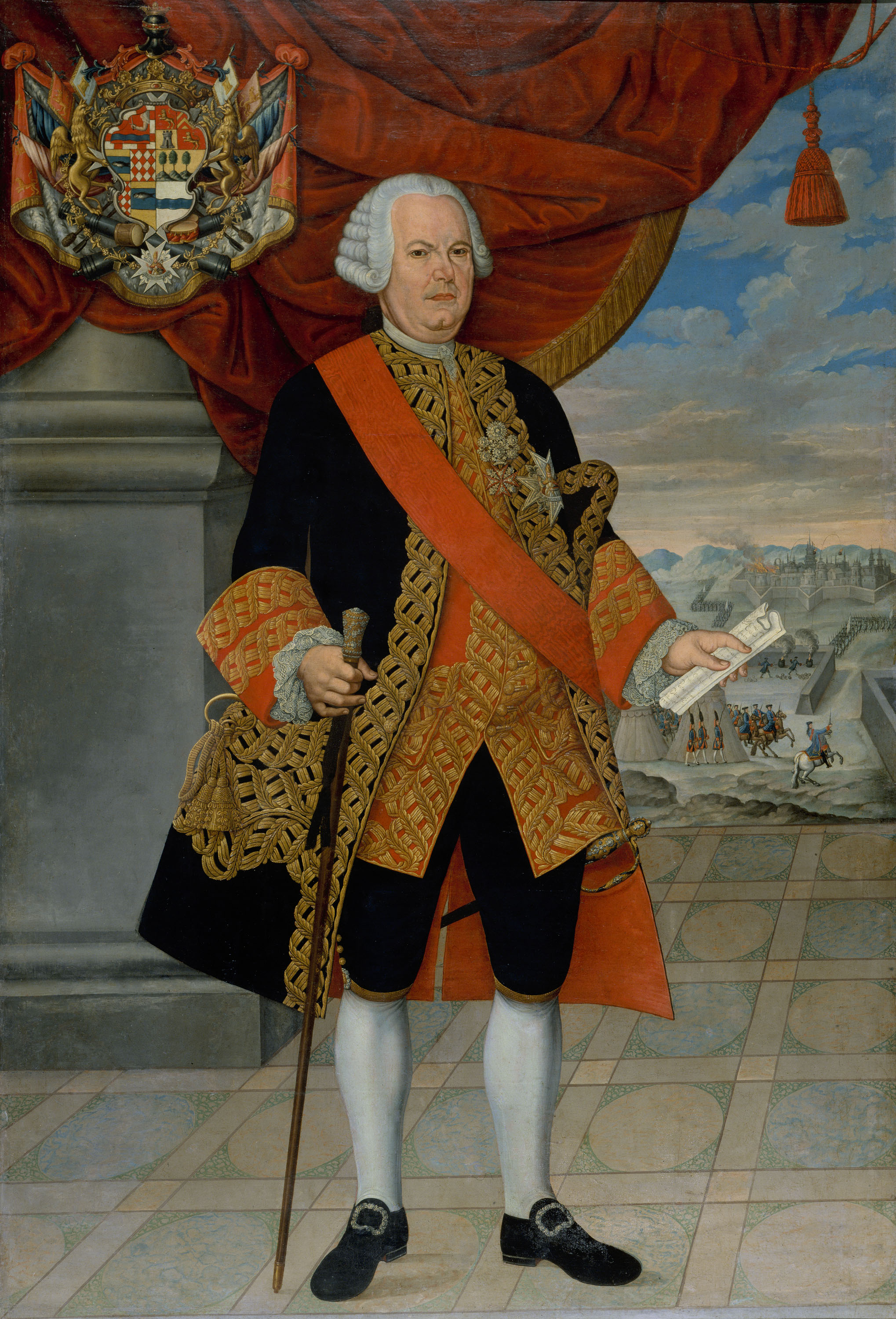 The portrait represents the viceroy with the Cross of Saint Jenaro, with which he was formally decorated in Lima in April 1773, shortly before his return to Spain